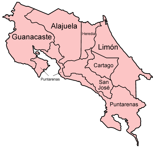 Map of the Provinces of Costa Rica. Named in Spanish (local language). Made by User:Golbez.